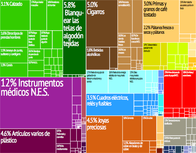 A proportional representation of The Dominican Republic's exports.